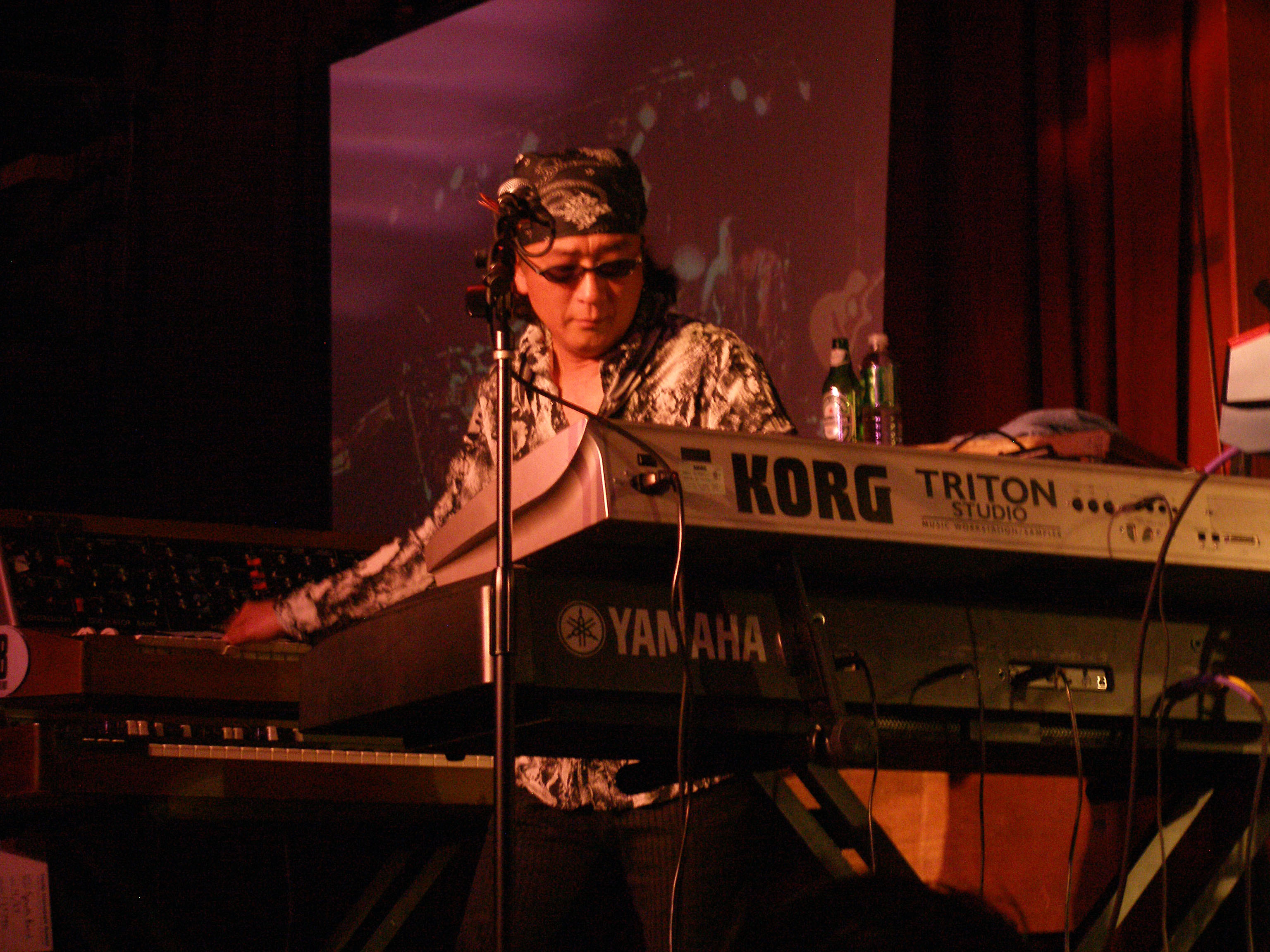 Ryo Okumoto onstage with Spock's Beard at BB Kings, NYC, April 2007.